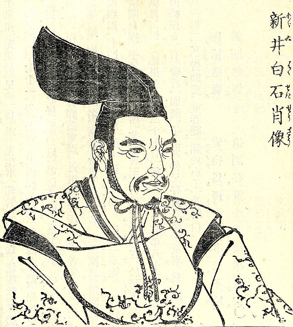 Arai Hakuseki (新井 白石) was a Confucianist, scholar, academic, administrator, writer and politician in Japan during the middle of Edo Period.